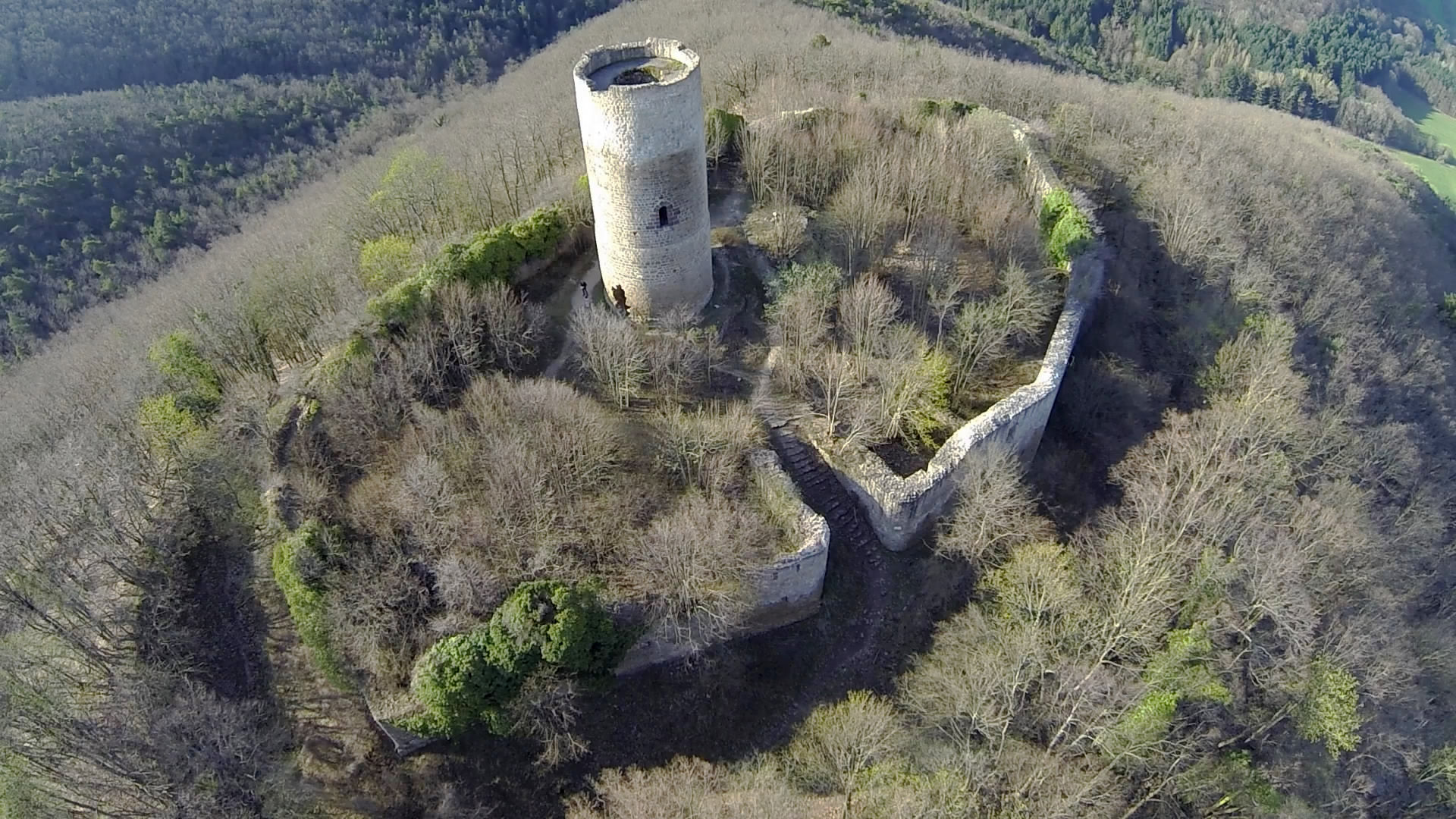 Ruin of the 15th century castle Pflixbourg, near Colmar, France.